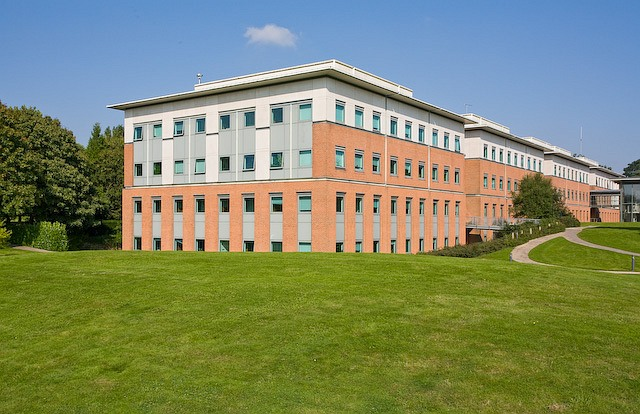 A Block, IBM Hursley Laboratory. This is one of six large, modern buildings built by IBM within Hursley Park. Although modern, this building echoes the architecture of 967947 and I presume from its name of A Block that it was the first to be built after IBM acquired Hursley Park. Access by kind permission of IBM United Kingdom Limited.